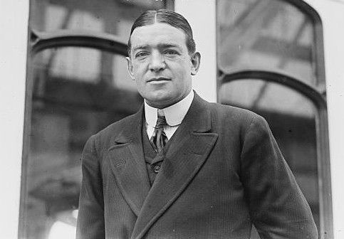 Ernest Henry Shackleton, Irish explorer